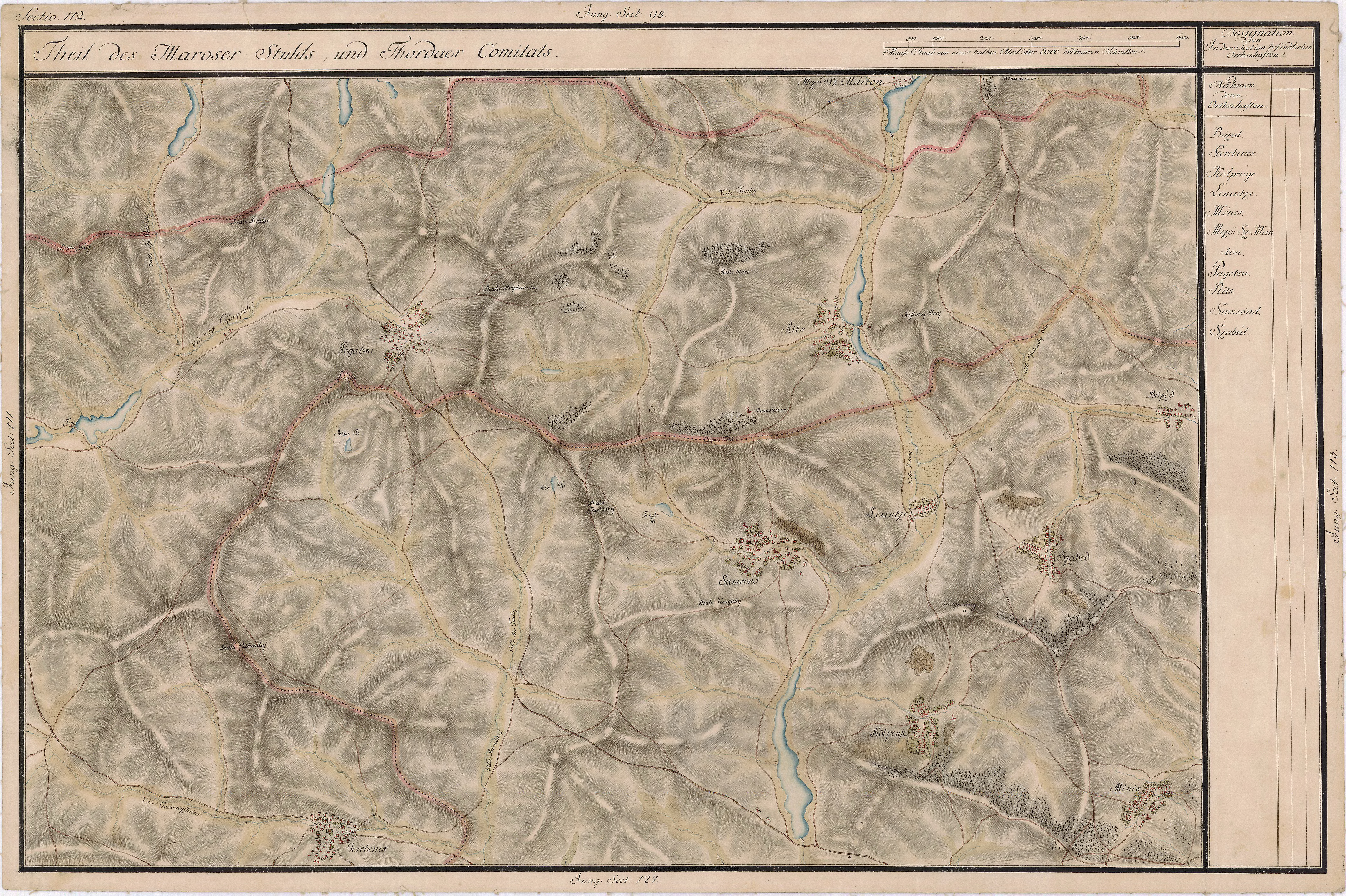 Grand Duchy of Transylvania, 1769-1773. Josephinische Landaufnahme pg.112